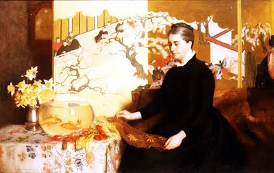 Lady with Japanese Screen and Goldfish (Portrait of the Artist's Mother)